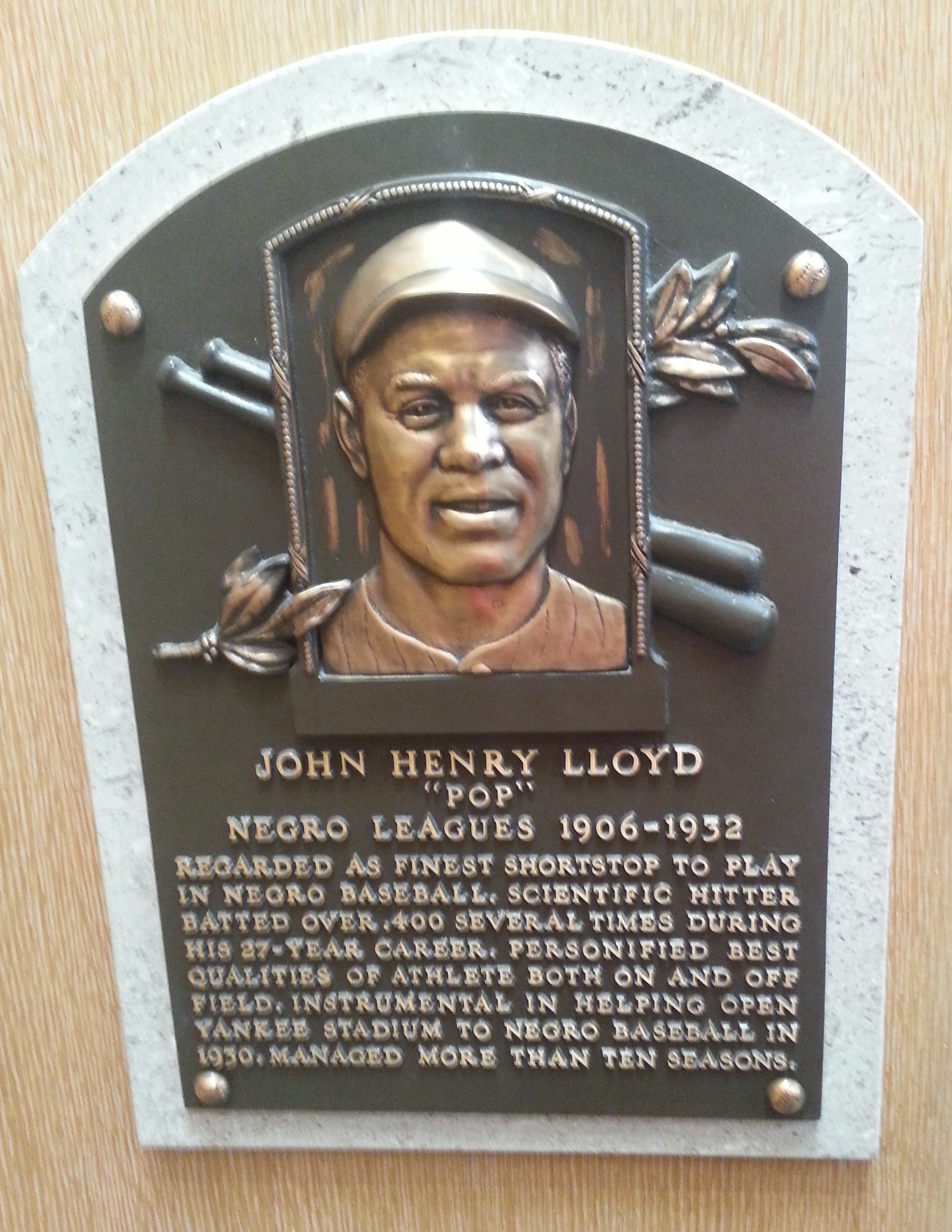 John Henry Lloyd plaque in the National Baseball Hall of Fame